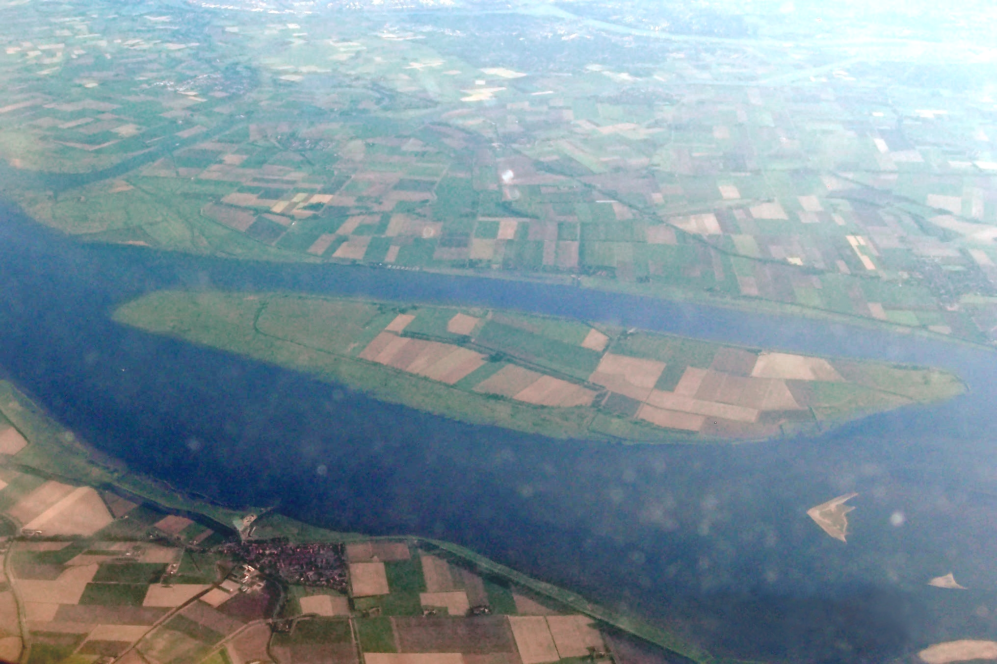 Aerial photo of Tiengemeten.